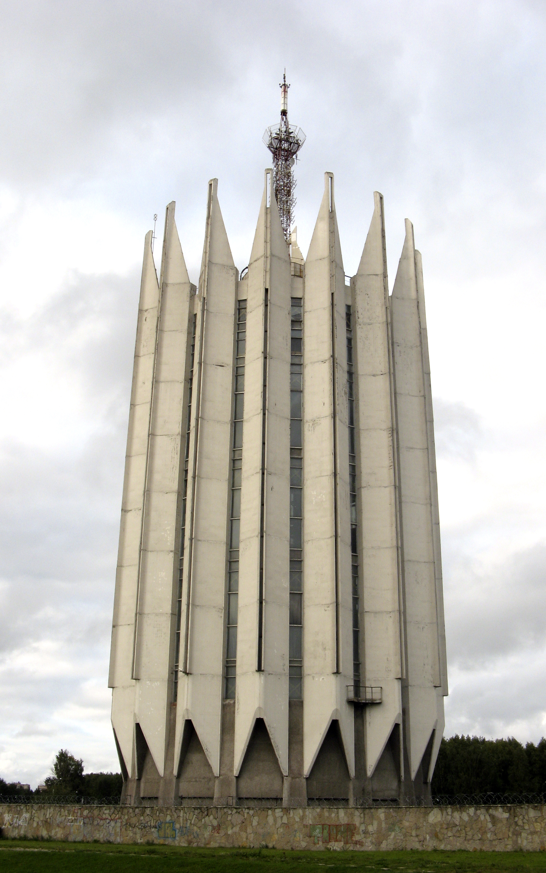 CRDI Robotics and Technical Cybernetics.